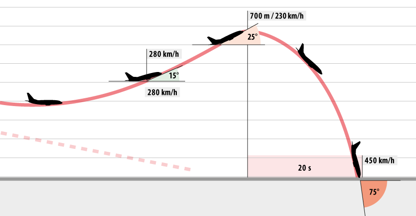 Tatarstan Airlines (Russian Federation) Boeing 737-500 crash scheme (2013).